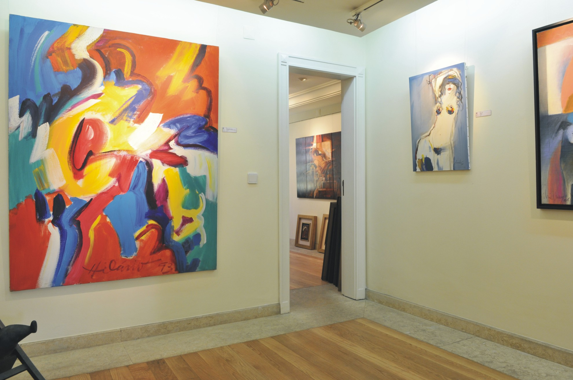 View of the gallery.